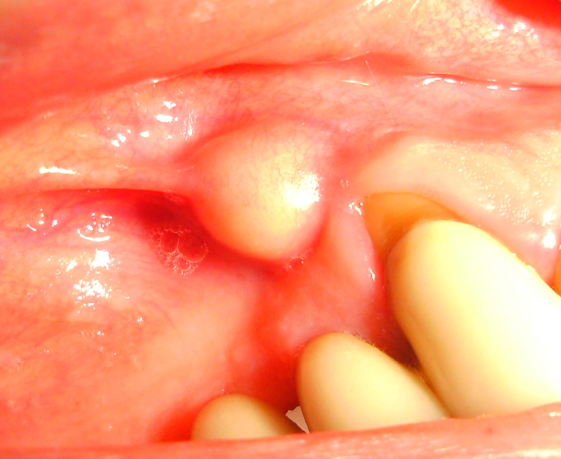 Periapical abscess started from an incorrect endodontic therapy of right upper canine. No sintomatology.